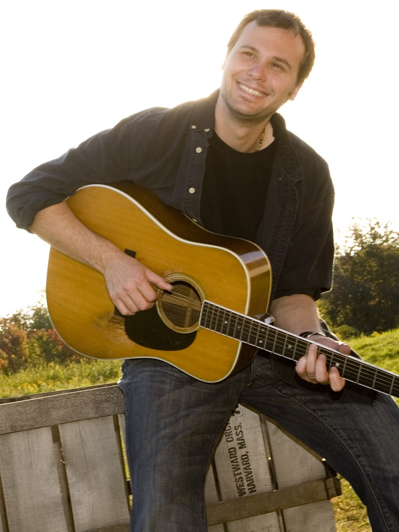 Alastair Moock in 2009